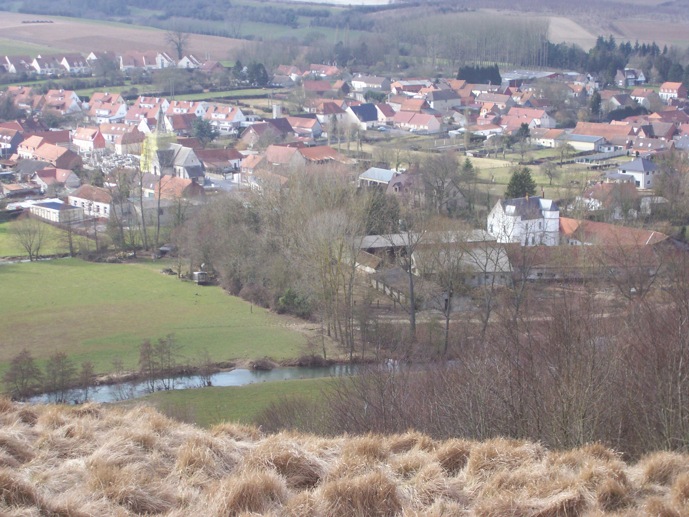 view of Elnes (church, castle) and the river Aa, village of Pas-de-Calais, France